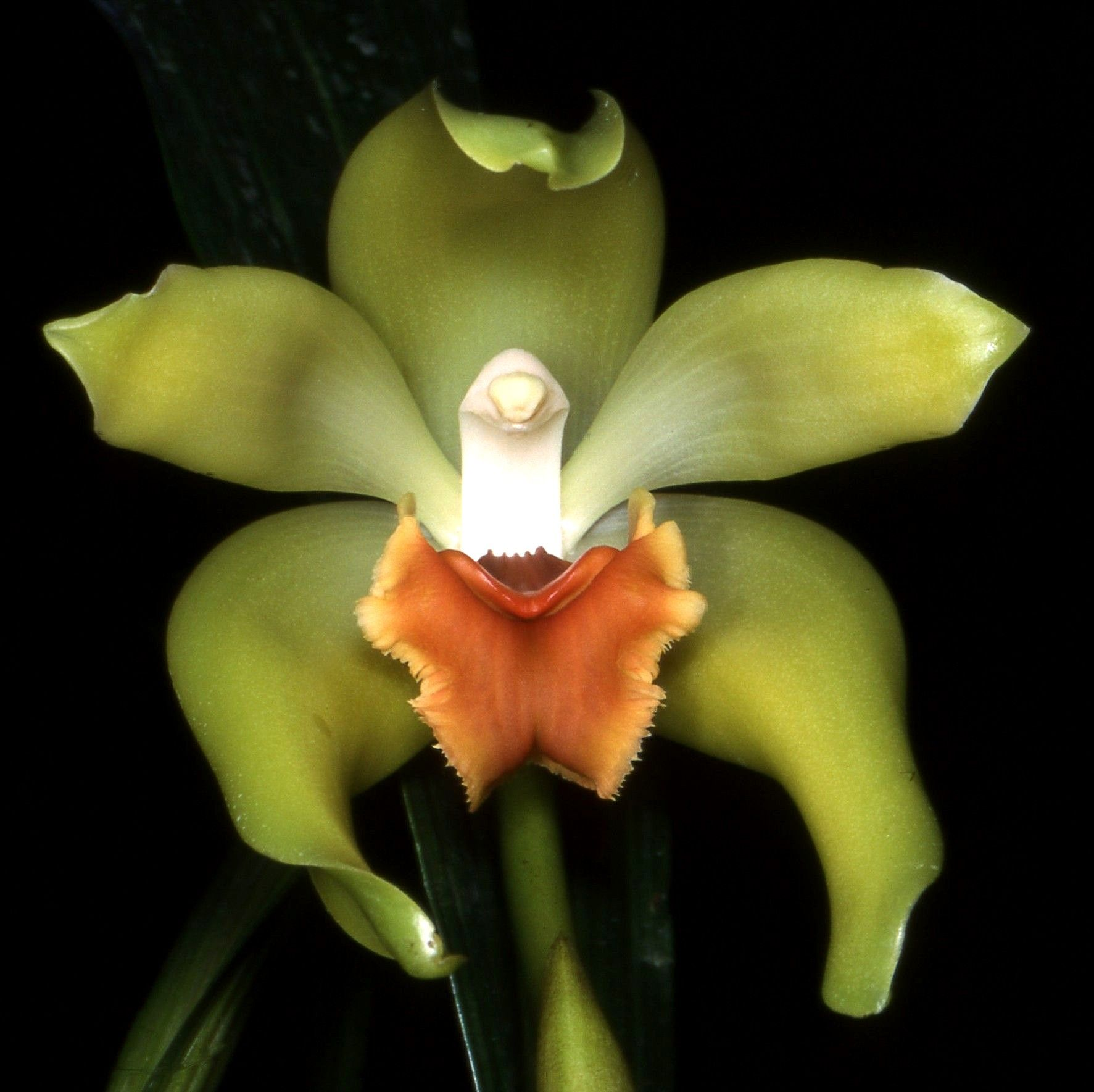 Sudamerlycaste cinnabarina - single flower